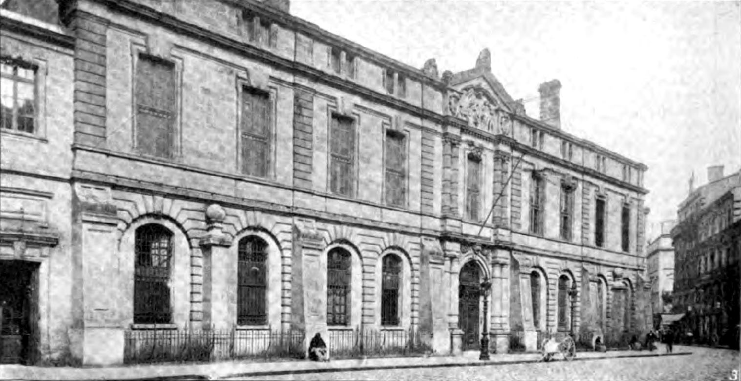 Photograph of the Bibliothèque de la Ville Bordeaux